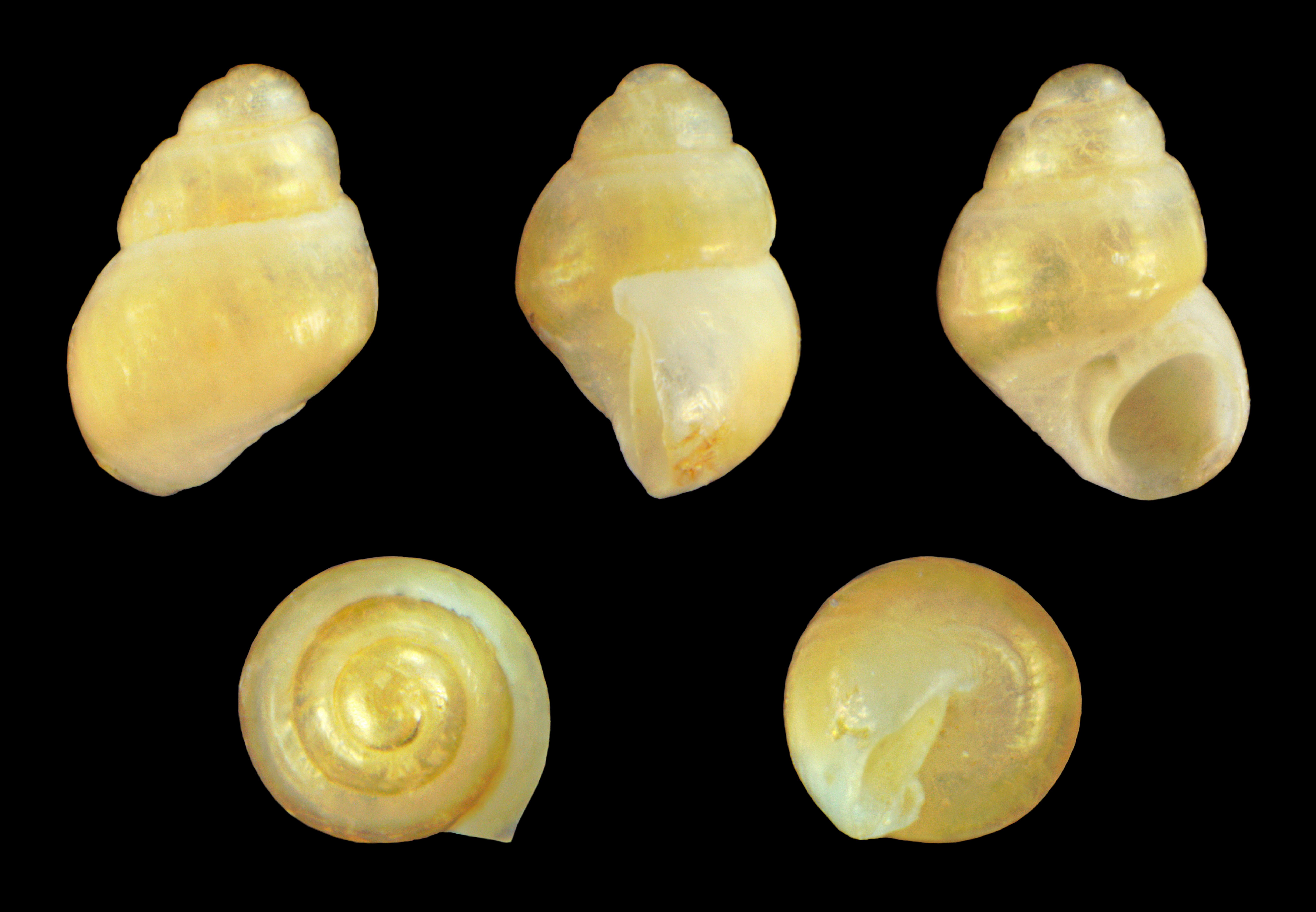 Length 0.09 cm; Originating from Puerto Rico; Shell of own collection, therefore not geocoded. Dorsal, lateral (right side), ventral, back, and front view.